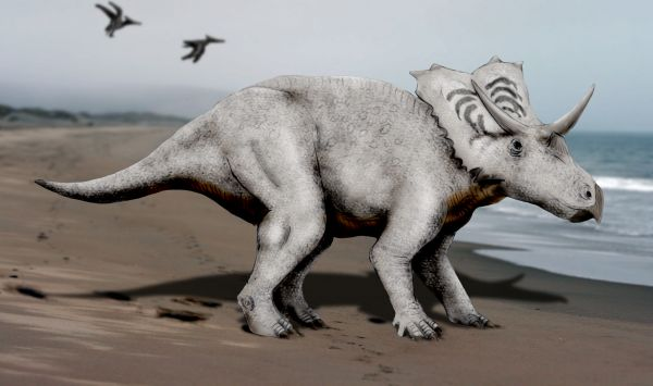 Chasmosaurus russelli (formerly Mojoceratops).